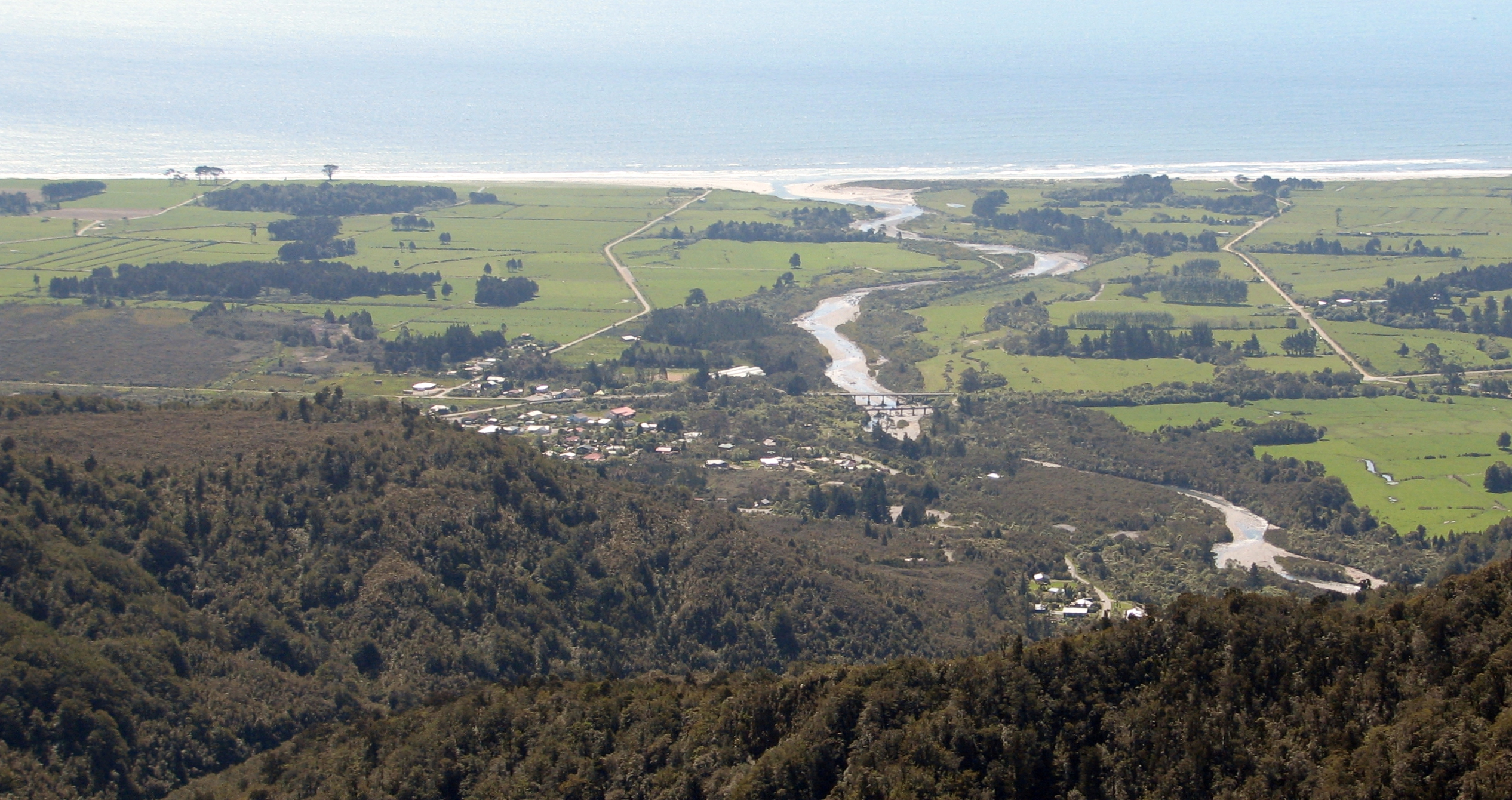 View of Waimangaroa township from the Denniston road. The Waimangaroa River is also visible.